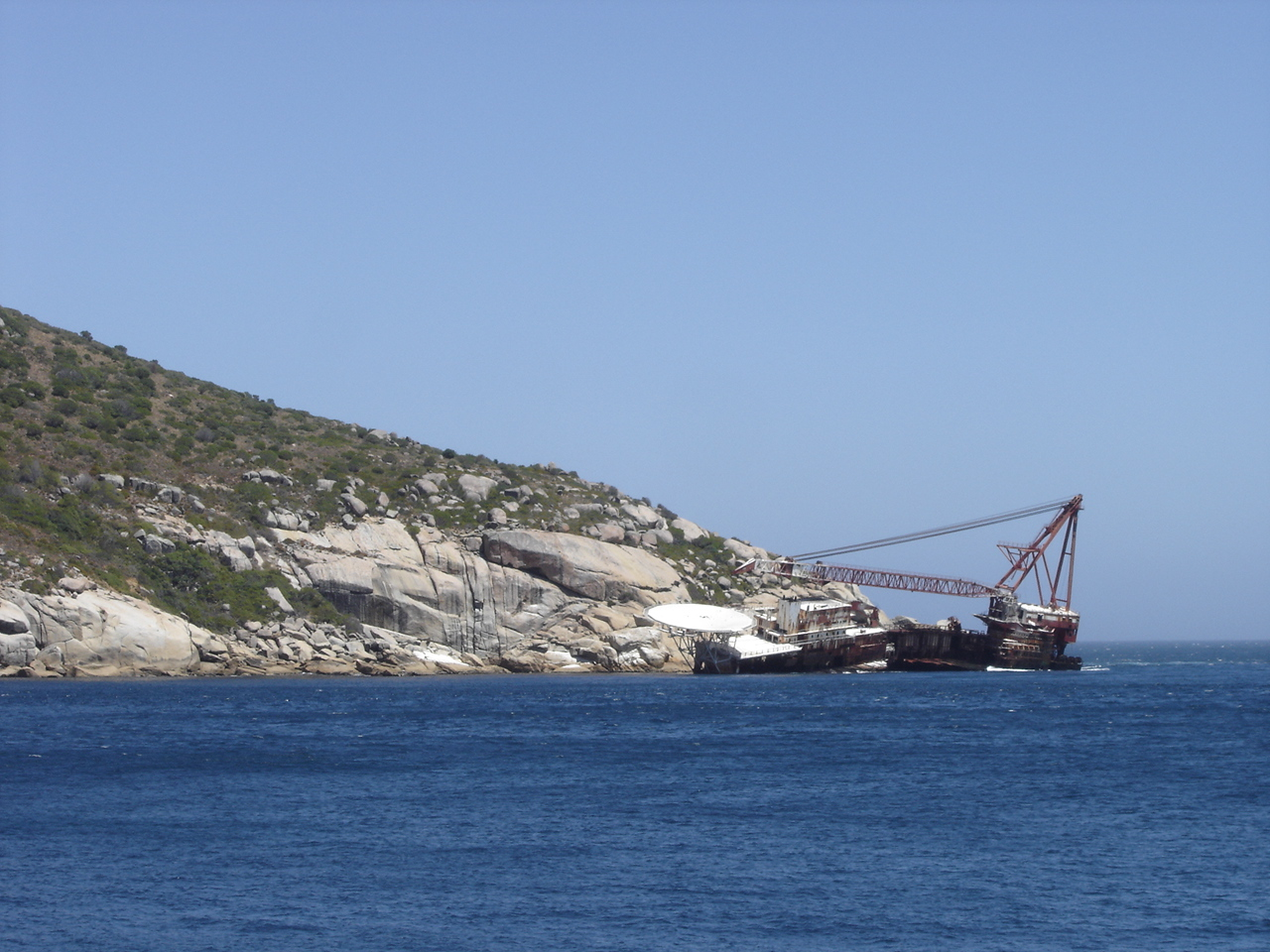 BOS 400 shipwreck, ran aground 1994, Duikerpoint, South Africa